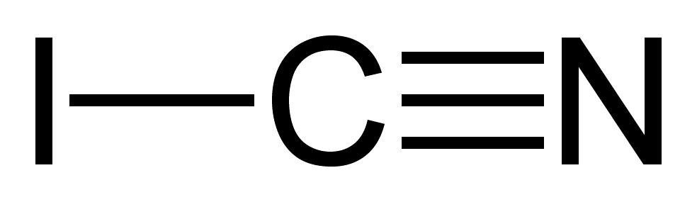 Structural formula of cyanogen iodide, ICN